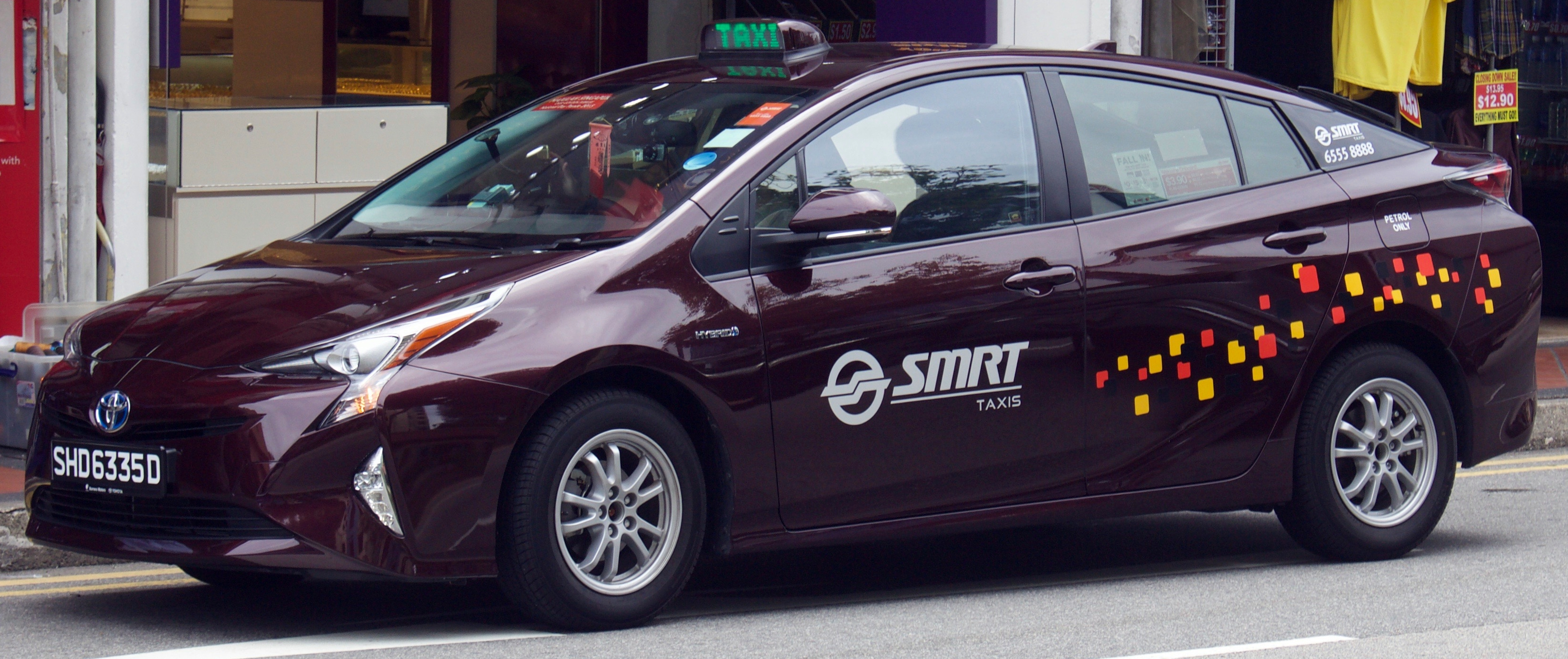 2016 Toyota Prius (ZVW50R) Hybrid liftback, SMRT taxis. Pictured in Singapore.